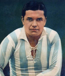 Striker Manuel Seoane wearing the Argentine national football team uniform.